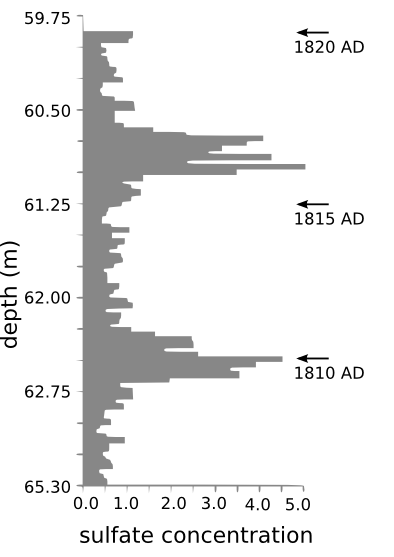 Sulfate concentration in ice core from Central Greenland, accurately dated by counting oxygen isotope seasonal variations. The year 1815 AD was due to the Mt. Tambora eruption, while prior to that is an unknown eruption.